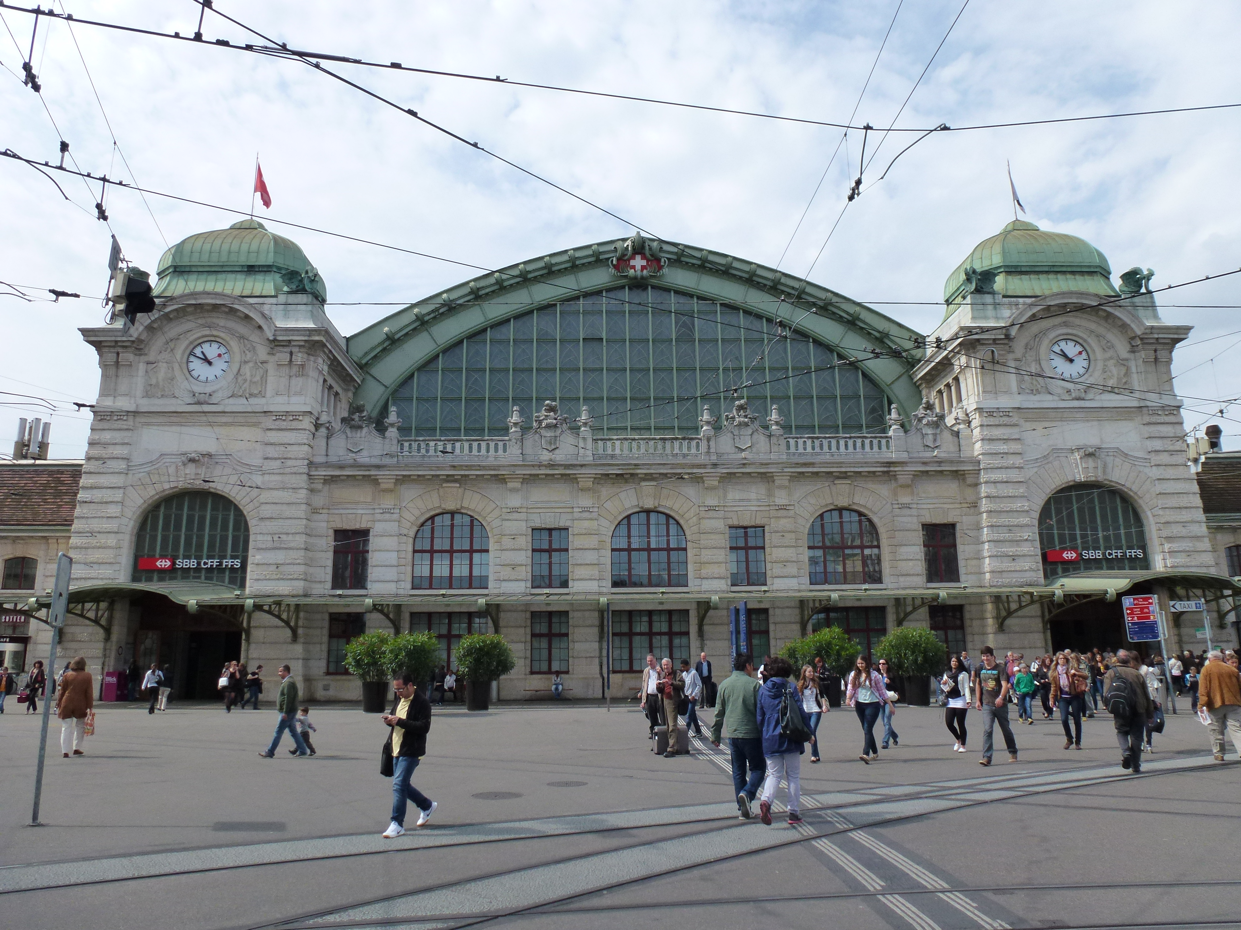 Railway station Basel SBB, Switzerland